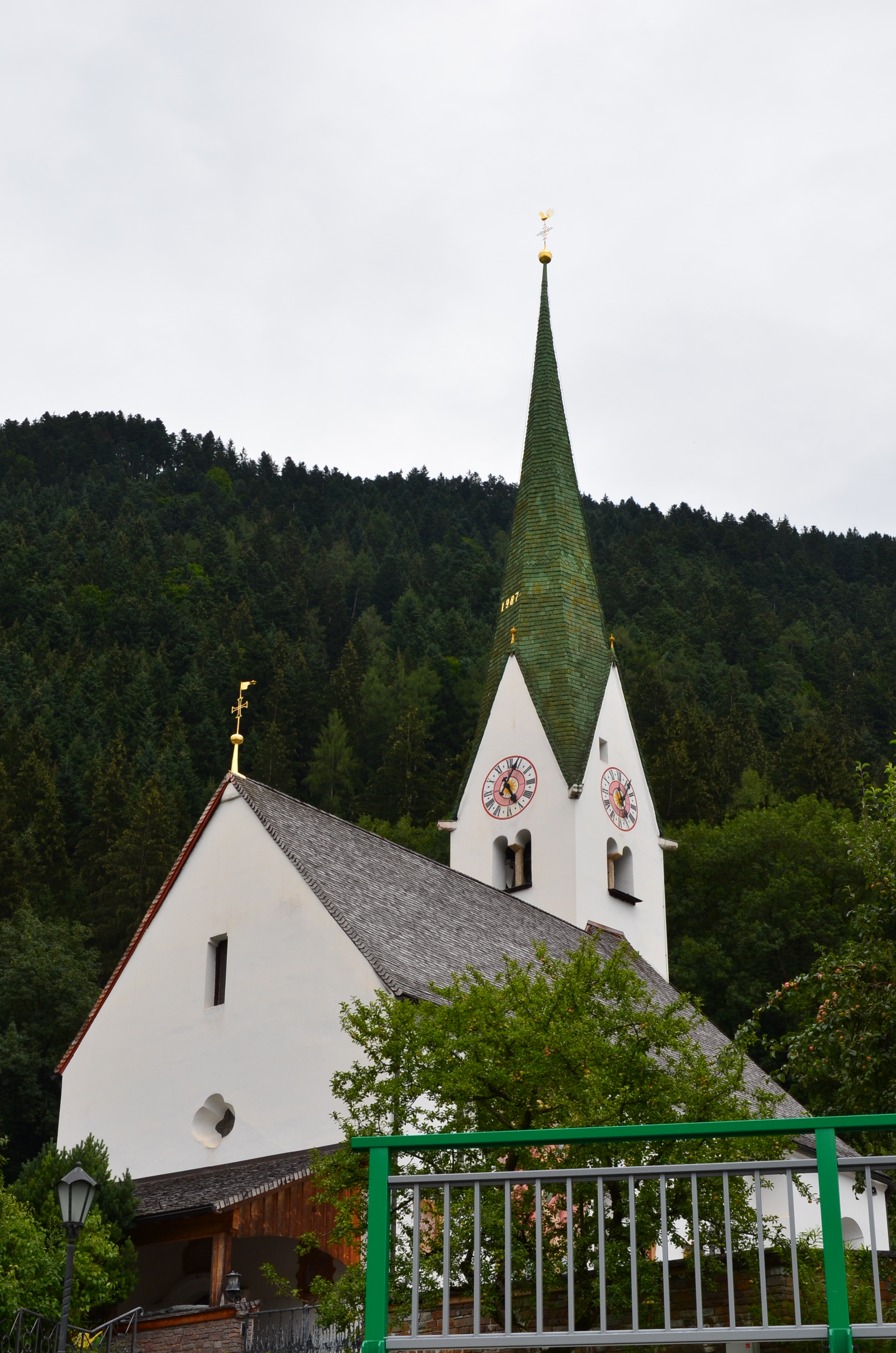 Church Hl. Leonhard Bruck am Ziller